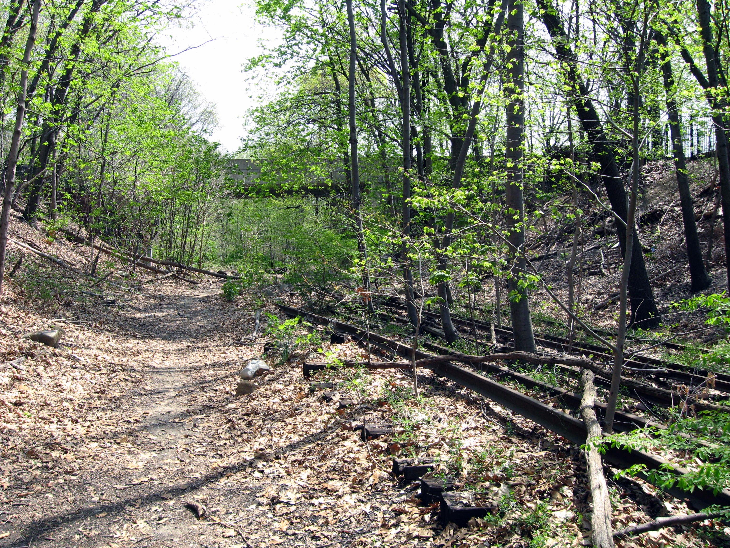 Looking southeast on a sunny spring afternoon in western Forest_Park_(Queens) along abandoned Rockaway_Beach_Branch at Myrtle Avenue overpass.